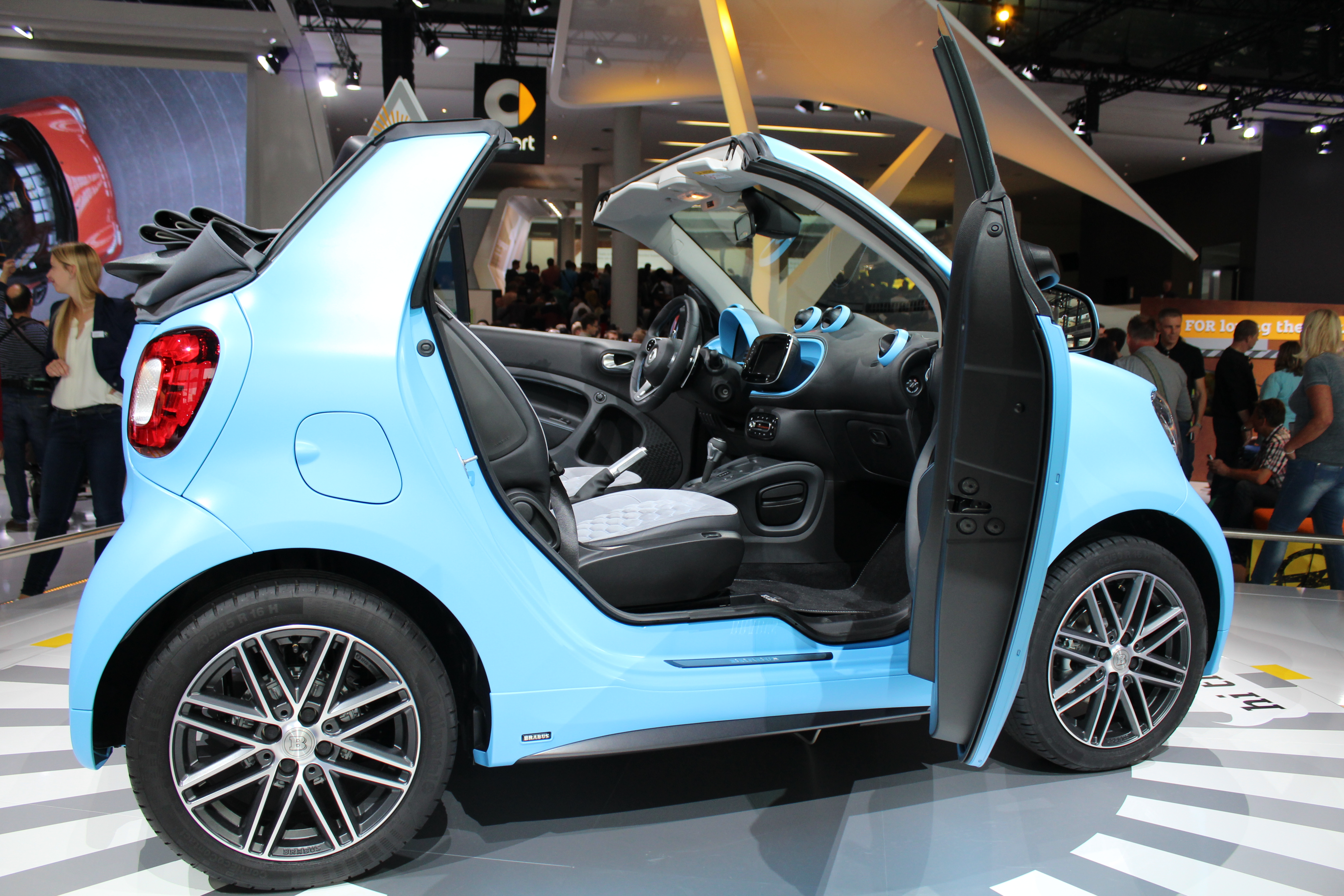 Passenger vehicles being displayed in 2015 International Motor Show Germany.